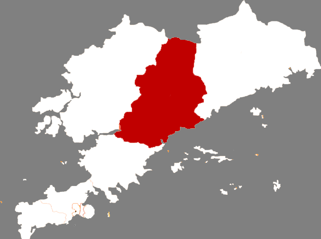 Location of Pulangdian county-level city in Dalian City, China